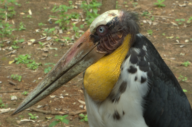 A Lesser Adjutant at Arignar Anna Zoological Park, Vandalur, India.